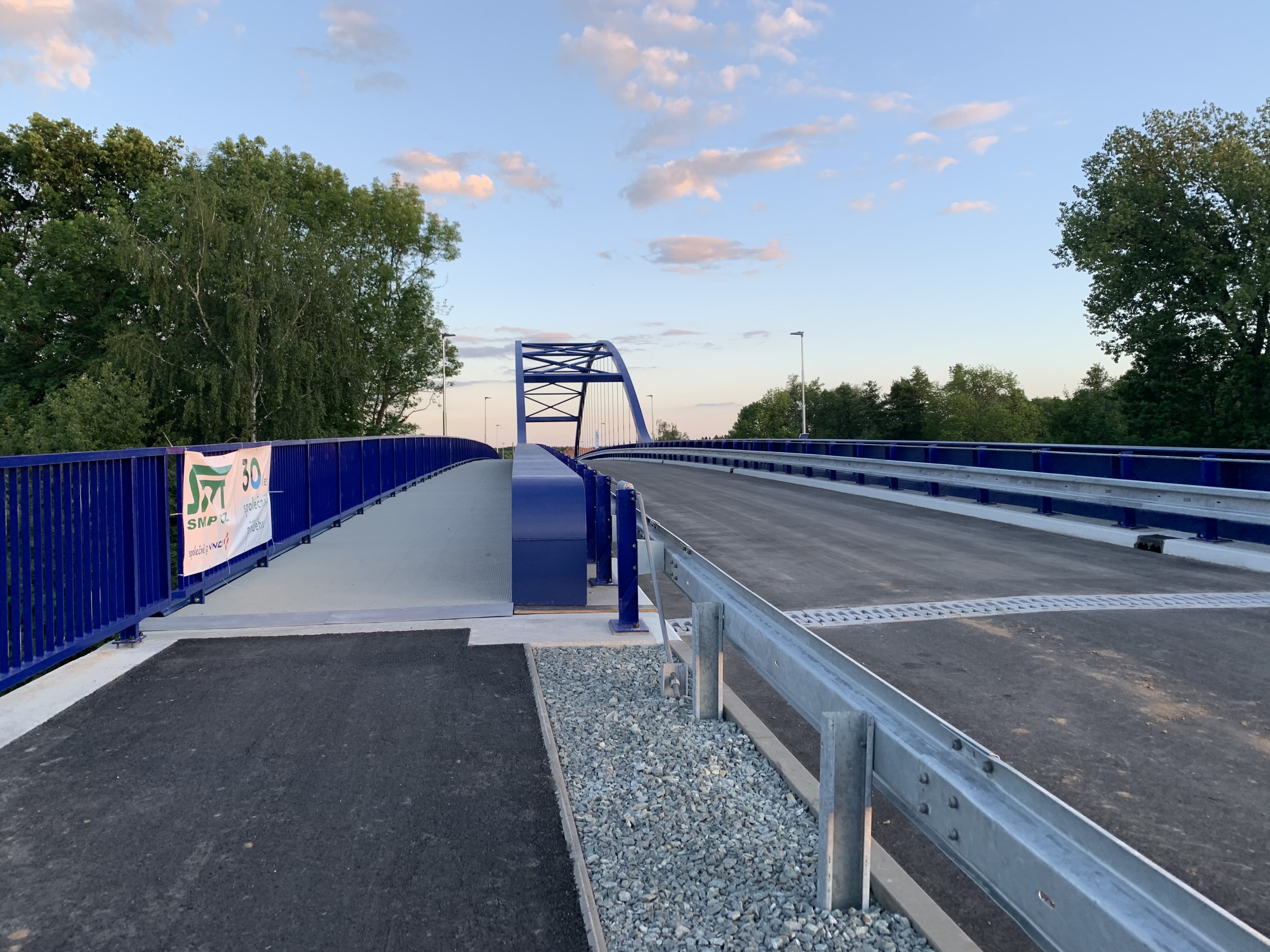 bridge Valy Mělice